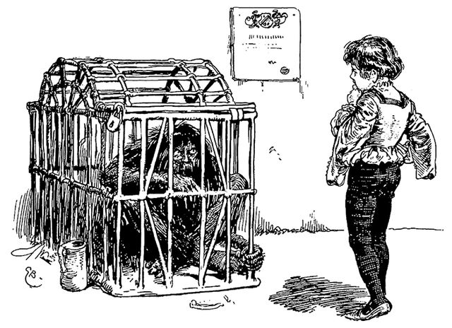 Eisenhans in the cage with the prince